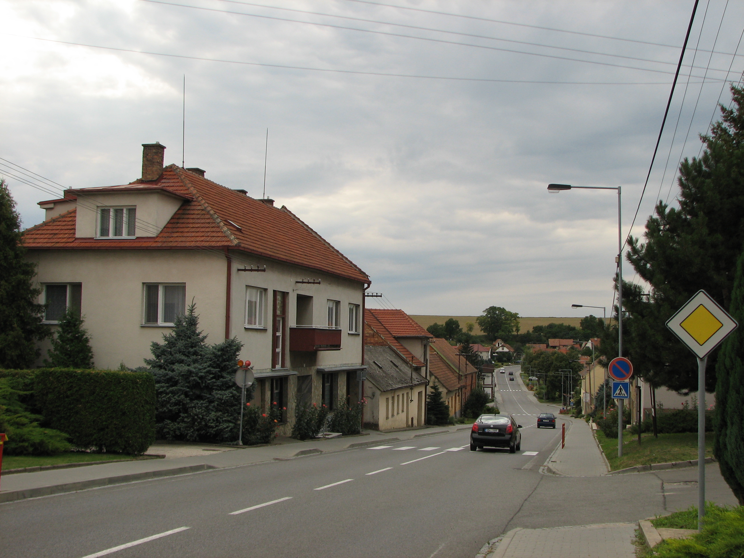 Archlebov - main street